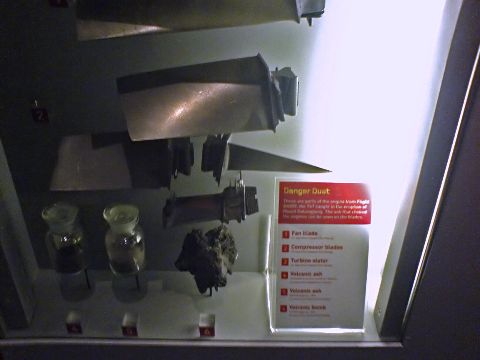 Some elements of the engines from British Airways Flight 9, damaged by volcanic ash (shown at the "Auckland Museum") Parts (from top): Fan blade Compressor blade Turbine stator